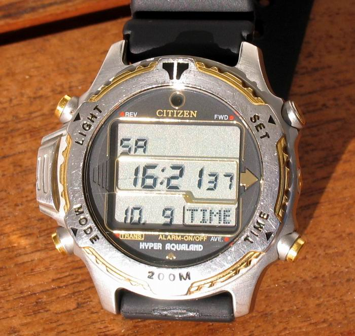 Citizen Hyper Aqualand PrCitizen Hyper Aqualand ProMaster MA9004-21E digital Diver's 200 m (metric MS Windows version) on a polyurethane strap.